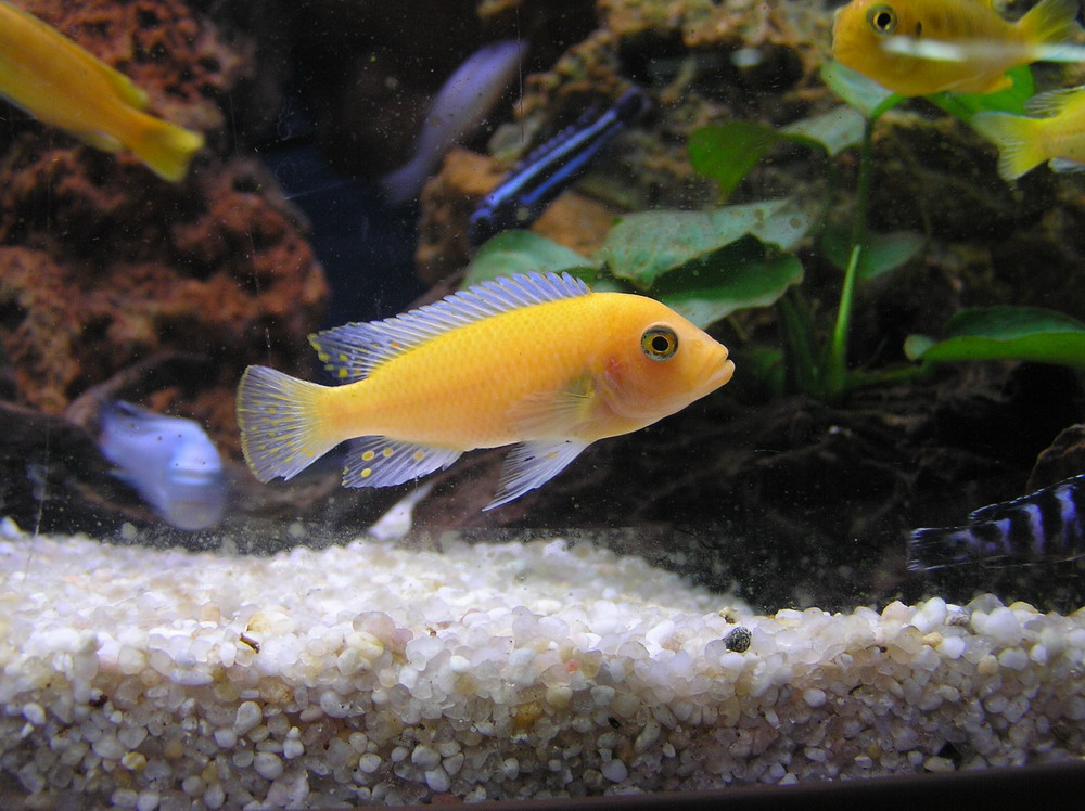 Mouthbrooder fish. Probably Maylandia estherae